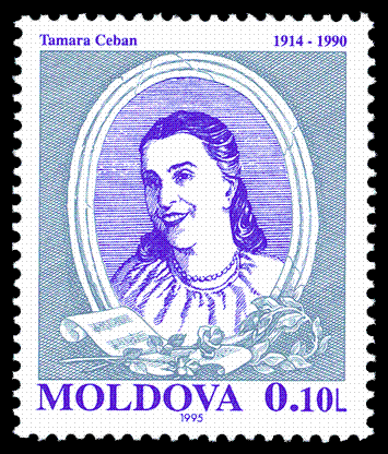 Tamara Ceban (1914-1990). Folk-music singer.